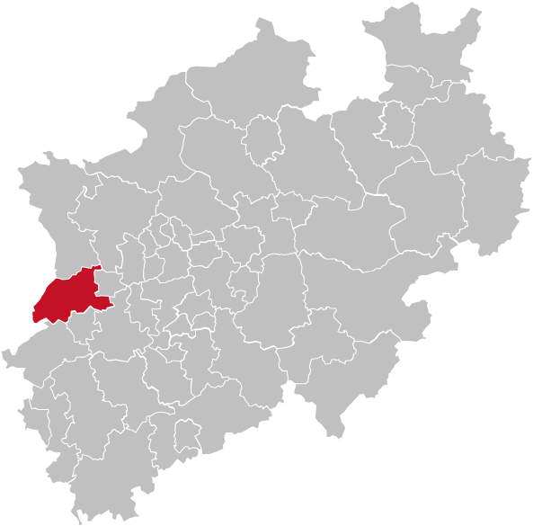 Map of Kreis Viersen, a District of Northrhine-Westphalia (NRW), Germany. Red/Grey colors match the color scheme of Germany maps and information boxes in German Wikipedia. Kreis is highlighted in red. Former version of map was based upon Image:North rhine w template.png that displayed some districts in the Cologne/Bonn area not correctly.based upon template